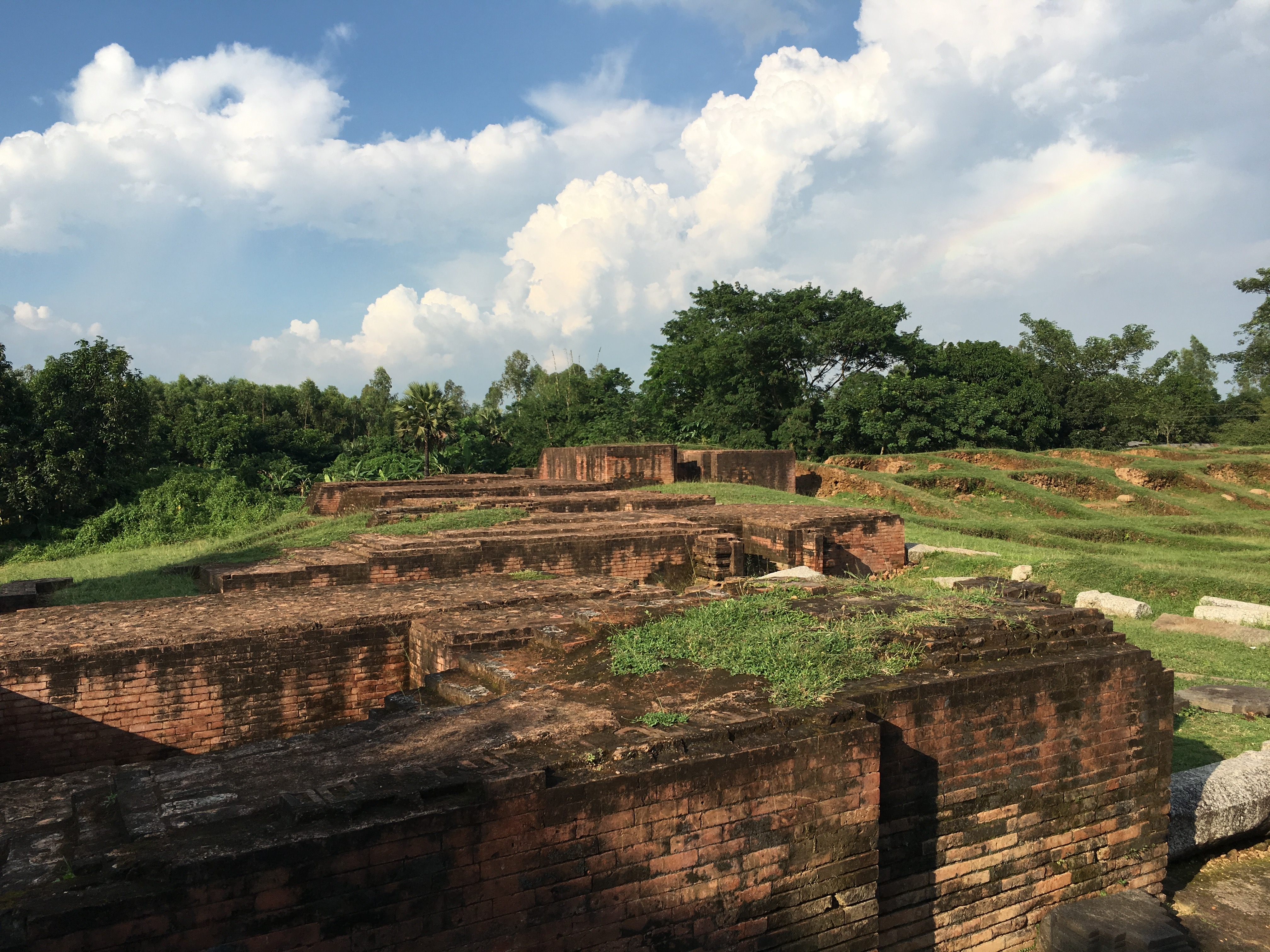 Jagaddala Mahavihara, submitted as tentative site for inclusion on the list of UNESCO World Heritage sites